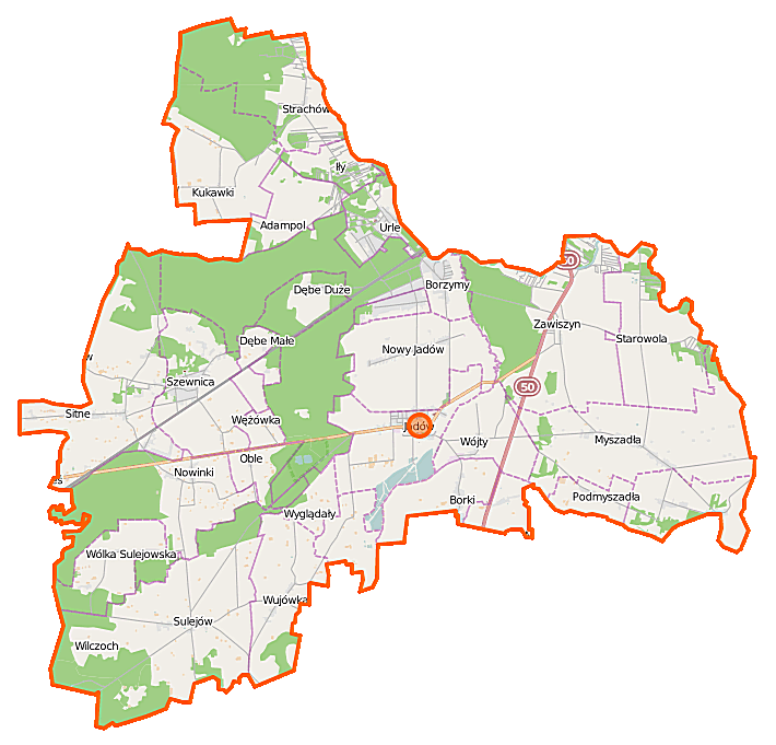 Map of Gmina Jadów, Poland This map of Jadów (gmina) was created from OpenStreetMap project data, collected by the community. This map may be incomplete, and may contain errors. Don't rely solely on it for navigation. Border coordinates52.559721.5006←↕→21.744752.4173